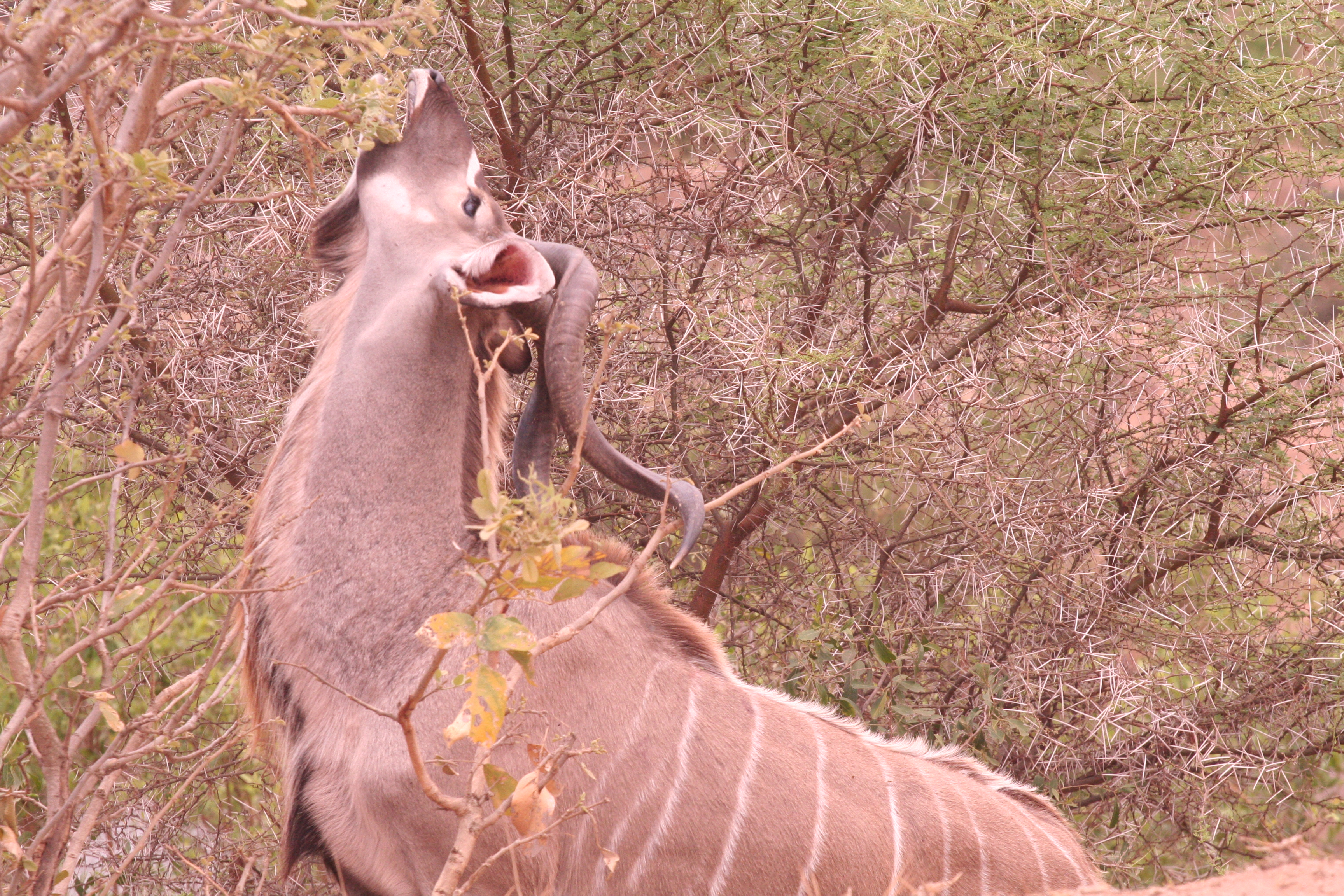 kudu